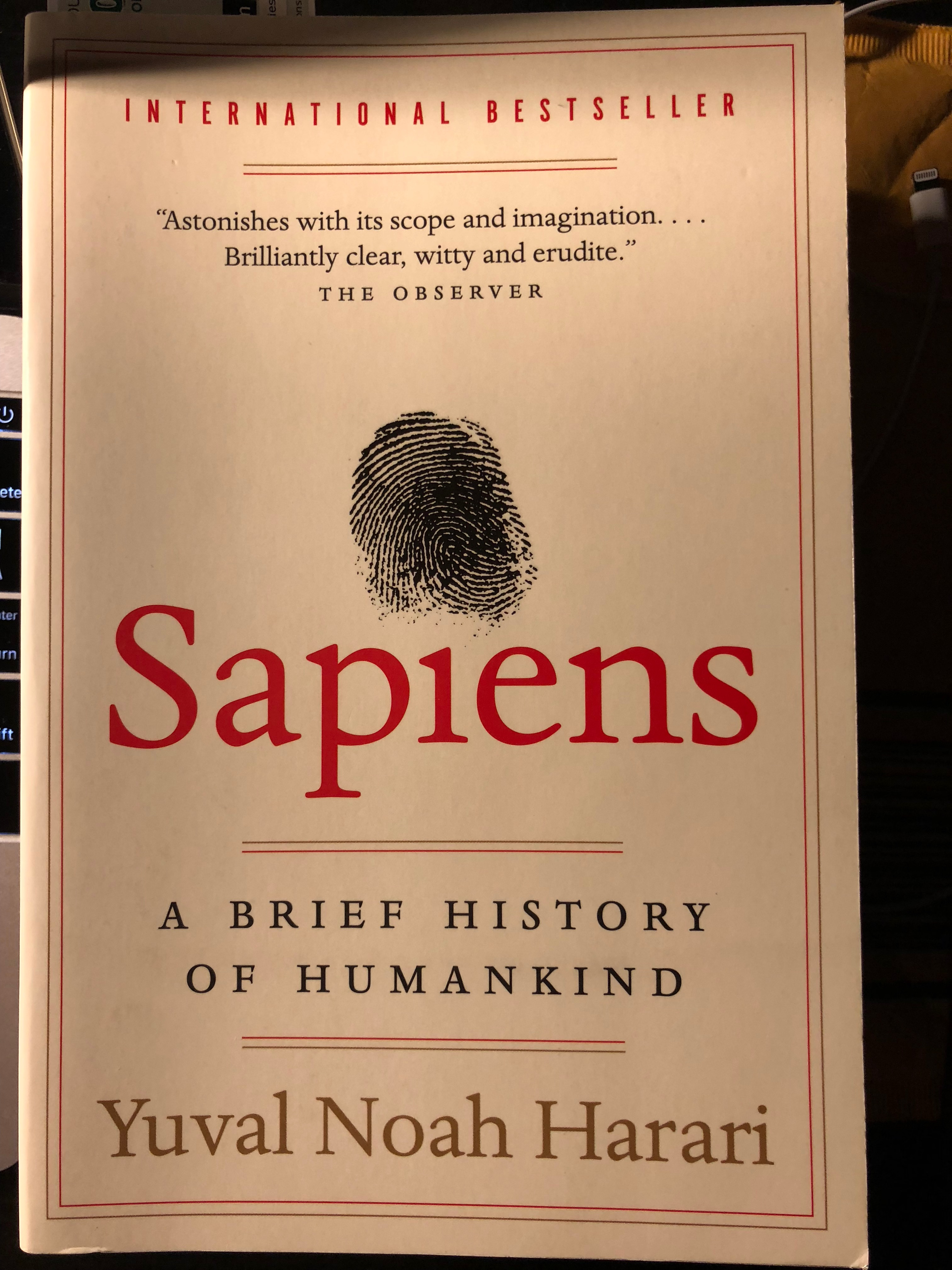 Cover of Yuval Noah Harari's Sapiens - A Brief History of Humankind